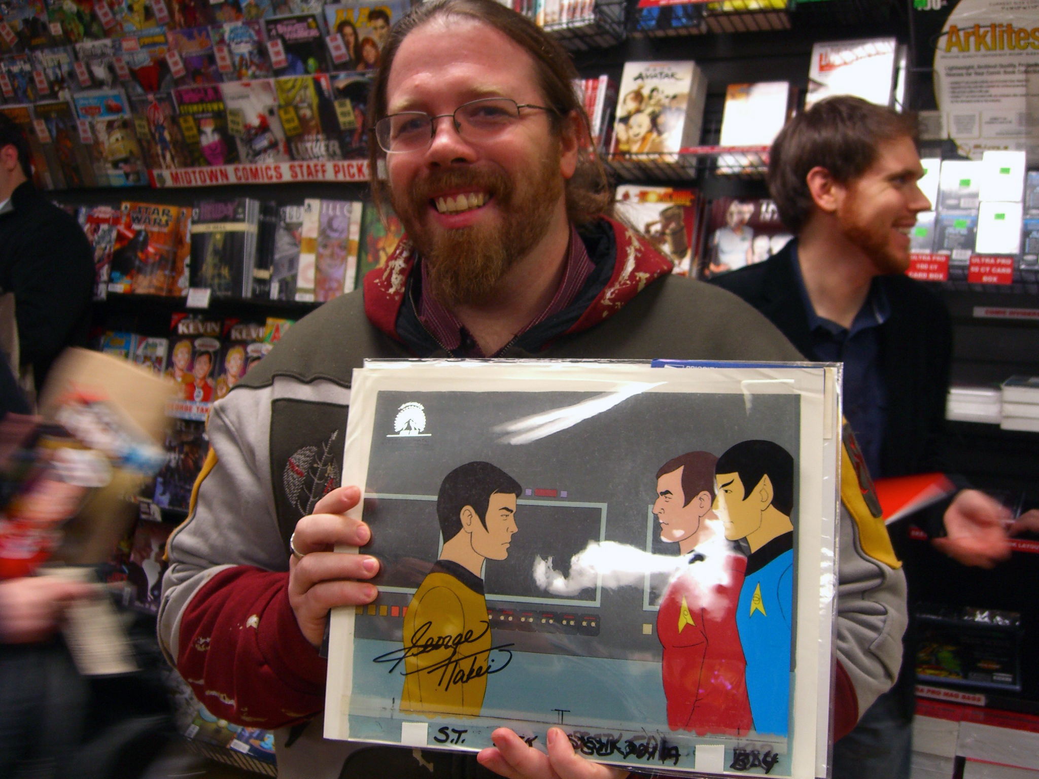 Fan Michael Lovasz holding an original animation cell from the TV series Star Trek: The Animated Series, which he has just had signed by Star Trek actor George Takei, at a December 5, 2012 book signing at Midtown Comics Times Square in Manhattan. This photo was created by Luigi Novi. It is not in the public domain, and use of this file outside of the licensing terms is a copyright violation.